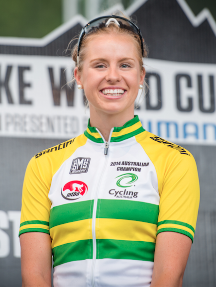 Peta Mullens achieved her first World Cup Podium this year in Nove Mesto XCE